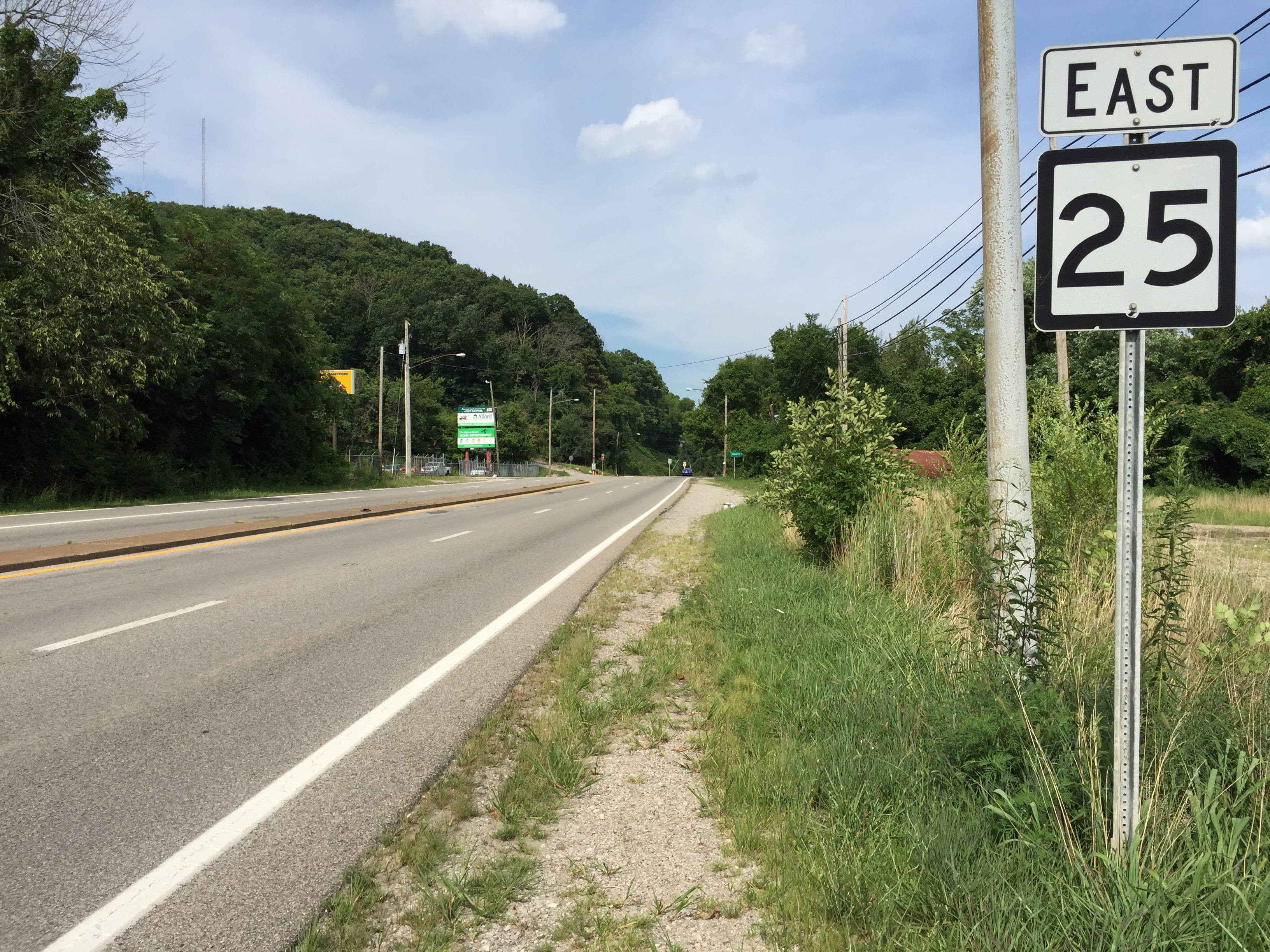 View east along West Virginia State Route 25 (Seventh Avenue) at West Virginia State Route 62 (Washington Street) in Charleston, Kanawha County, West Virginia